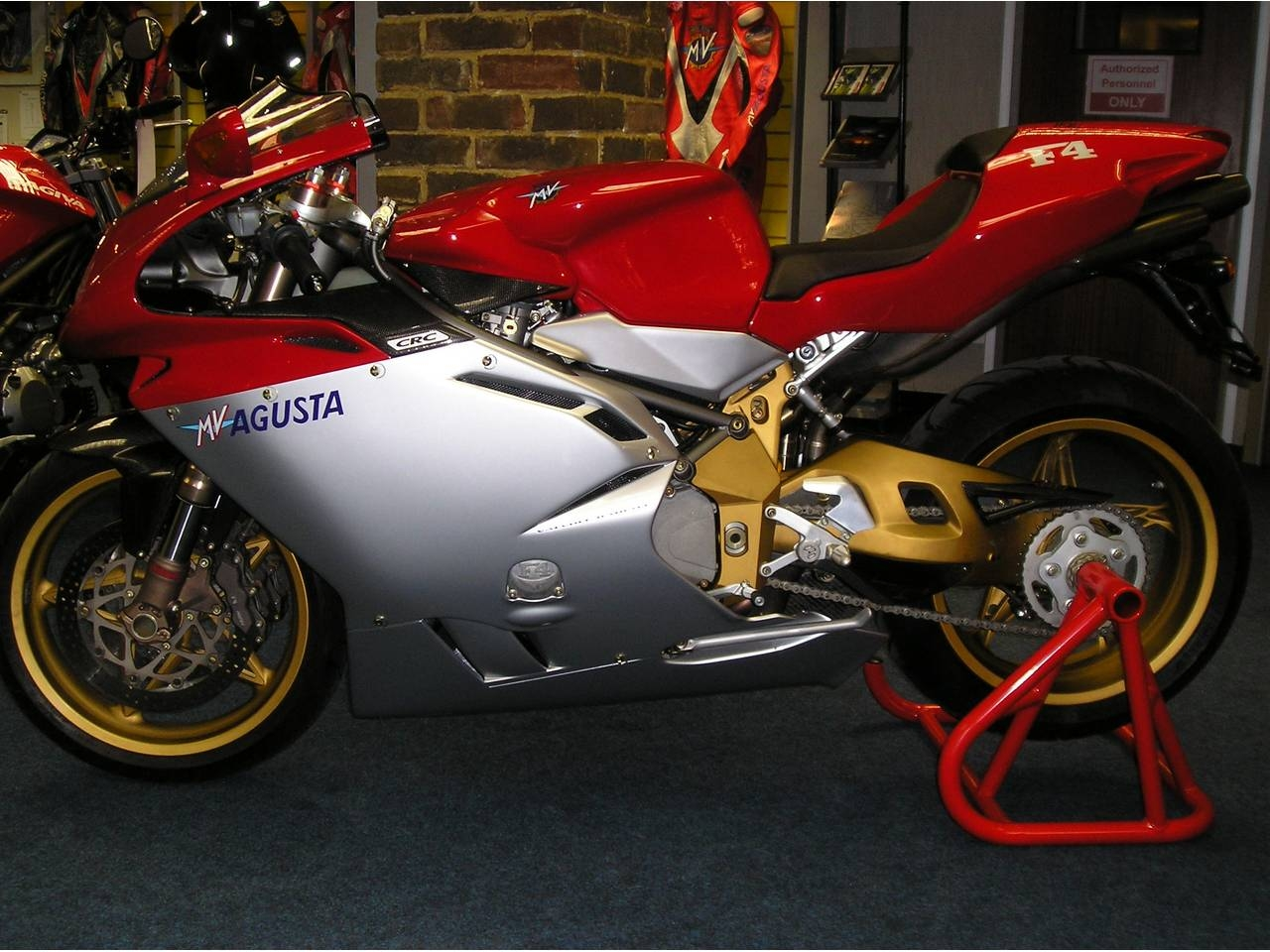 MV Agusta F4 Serie Oro